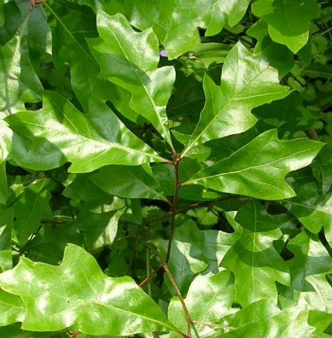 Georgia oak (Quercus georgiana), photo taken 2005 May 06 in Atlanta, Georgia.